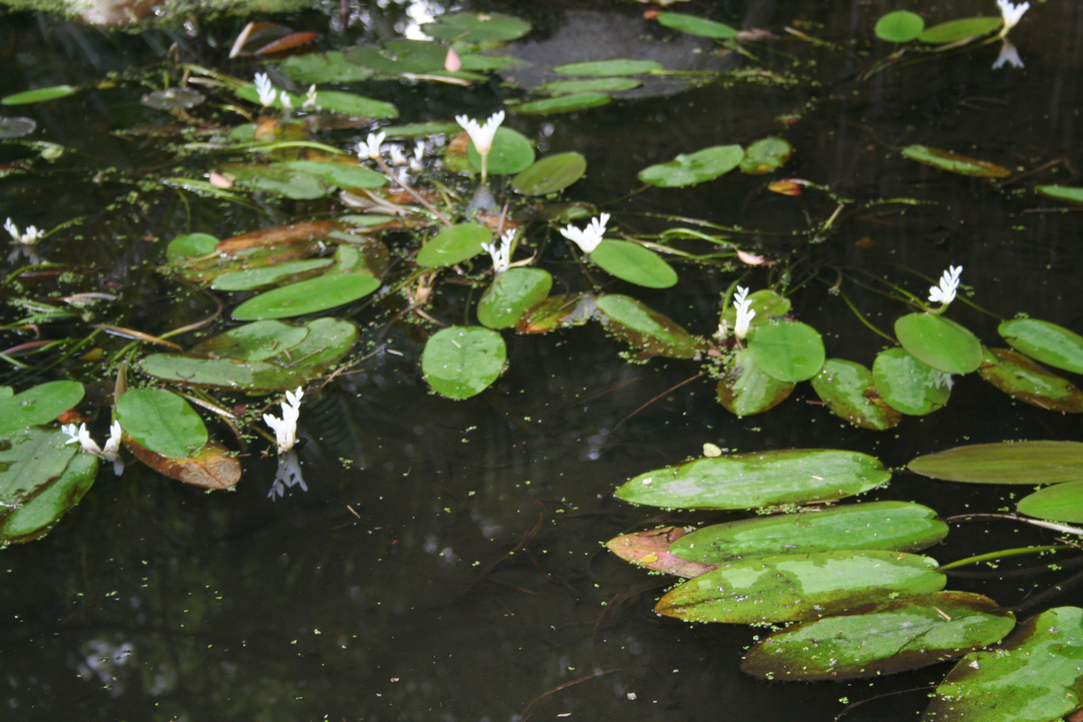 Aponogeton distachyos (Waterblommetjies) in a pond in Stellenbosch Botanical Garden, South Africa